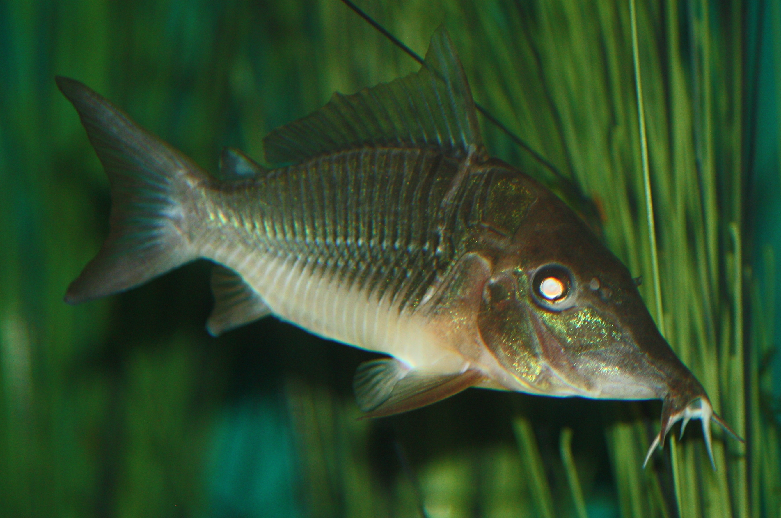 Hog-Nosed Brochis Brochis multiradiatus at the Louisville Zoo